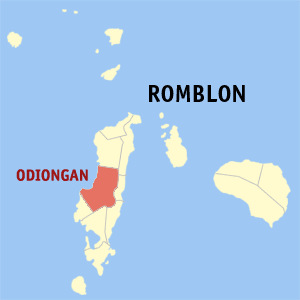 Map of Romblon showing the location of Odiongan